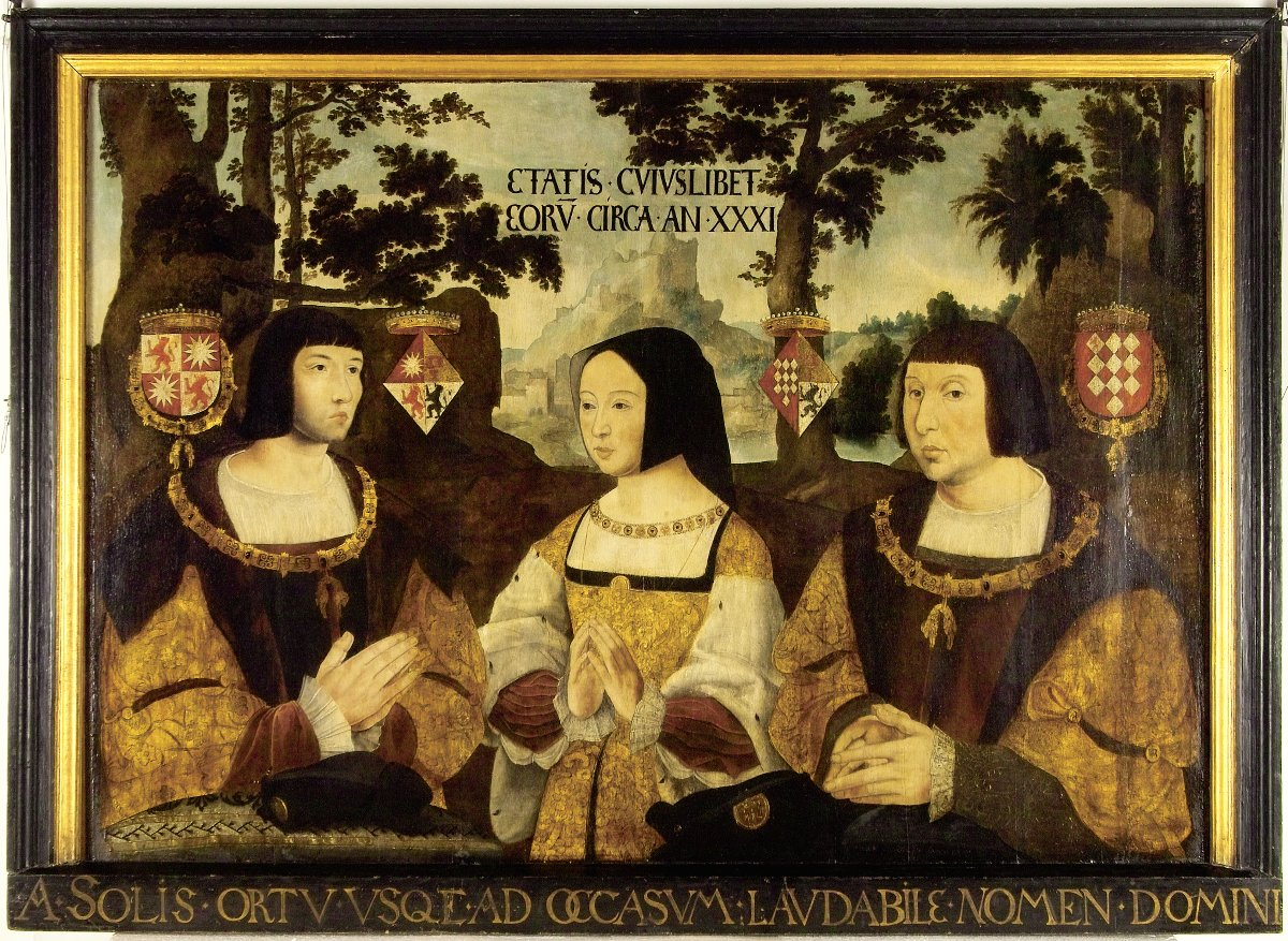 Jean de Luxembourg, Elisabeth van Culemborg and Antoine de Lalaing